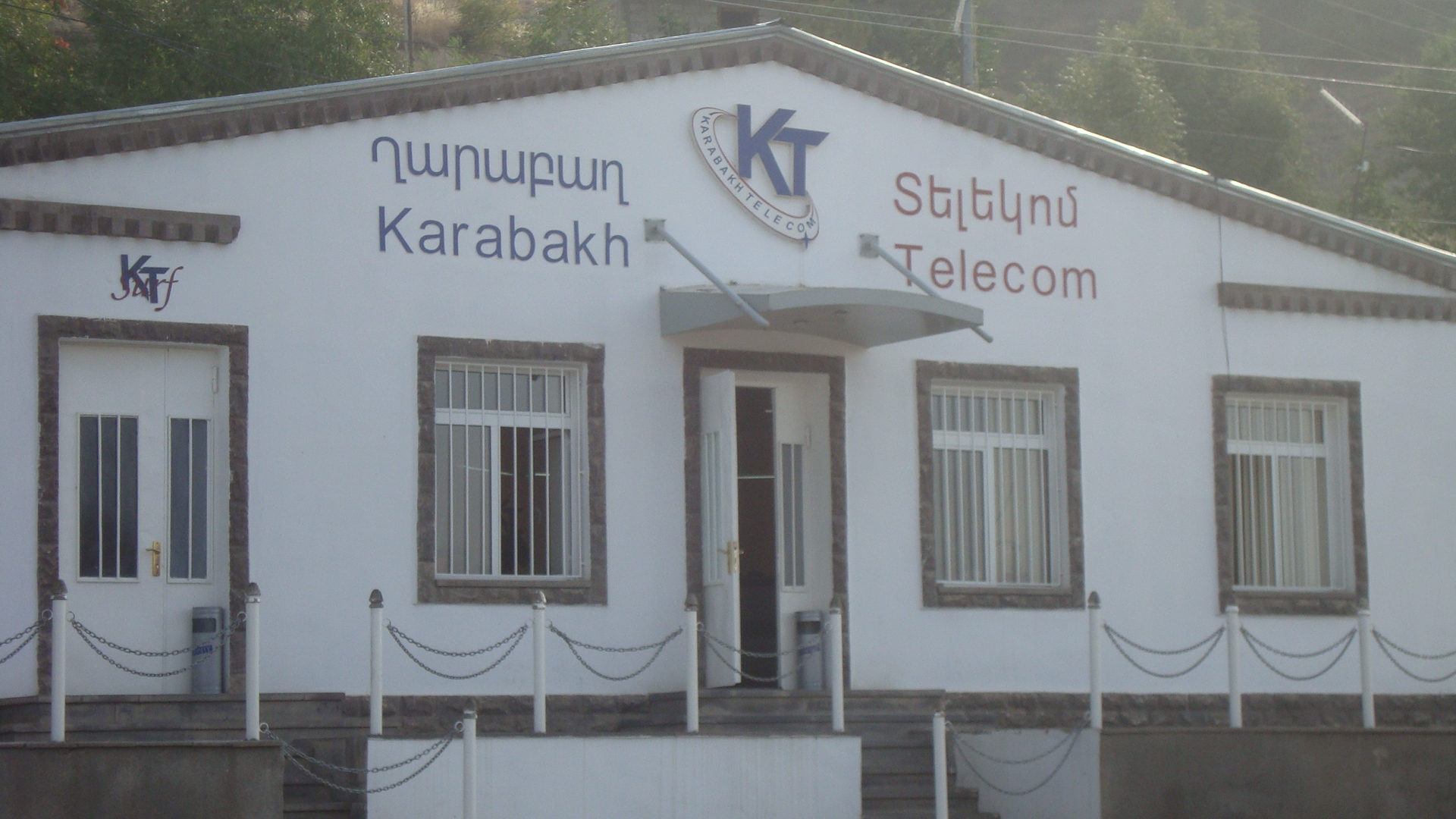 A building of KarabkhTelecom (mobile operator). Berdzor, Republic of Mountainous Karabakh (Artsakh).